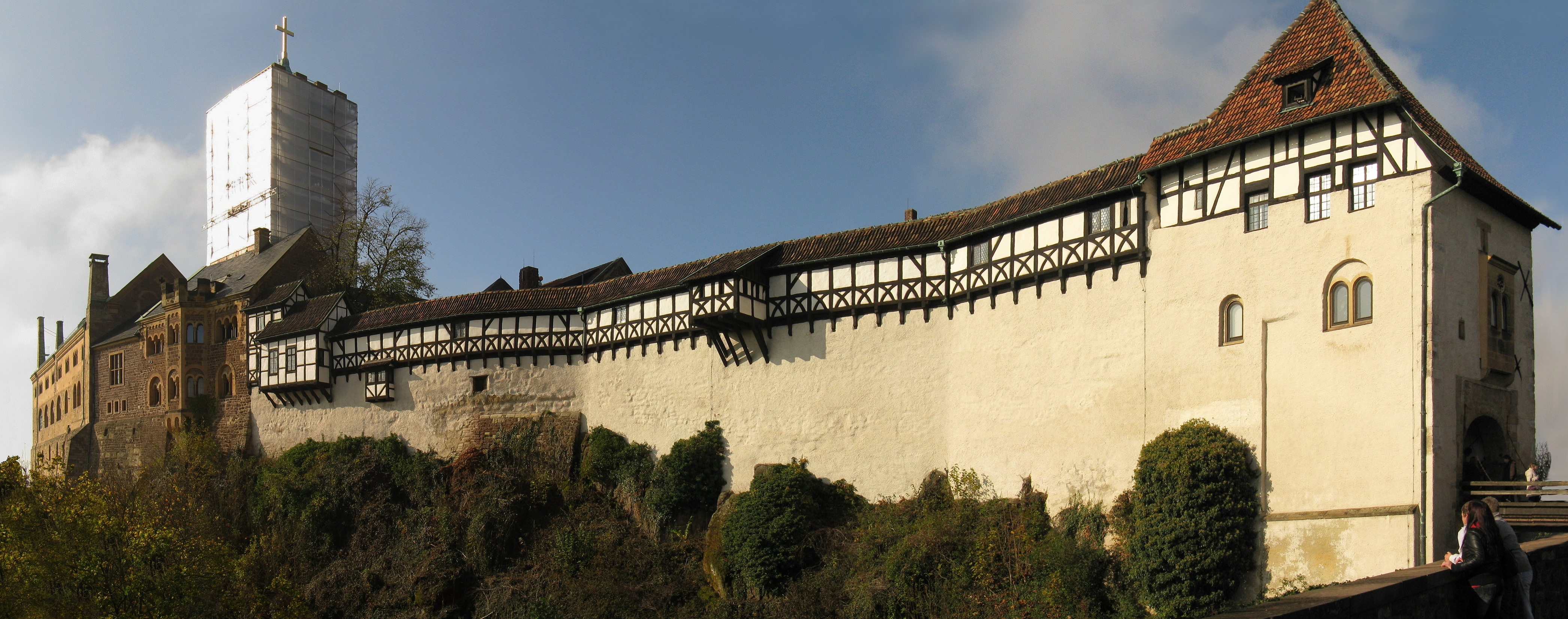 Panoramic view of Wartburg Castle in Thüringen (Germany), eastern walls. The picture is stitched from three single photos, and some areas on the lower left and right corners are artificial and not an exact image of reality.